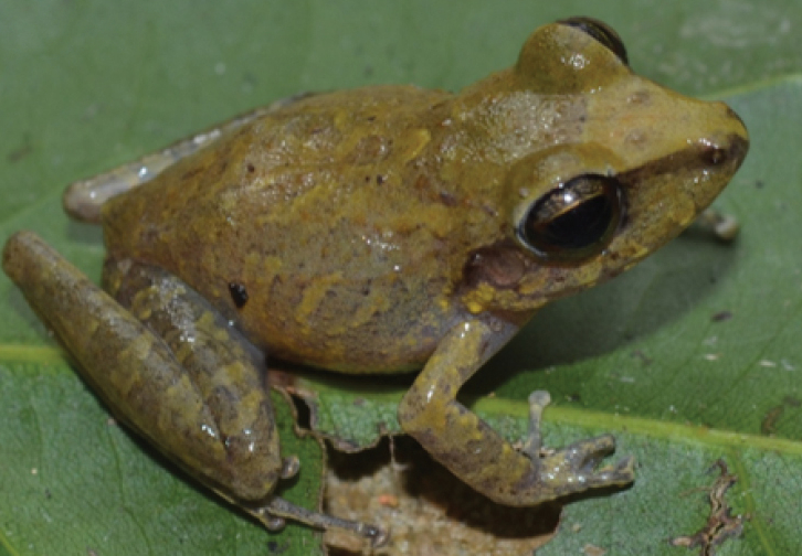 Cropped by File:Color variation of Pristimantis latro.jpg